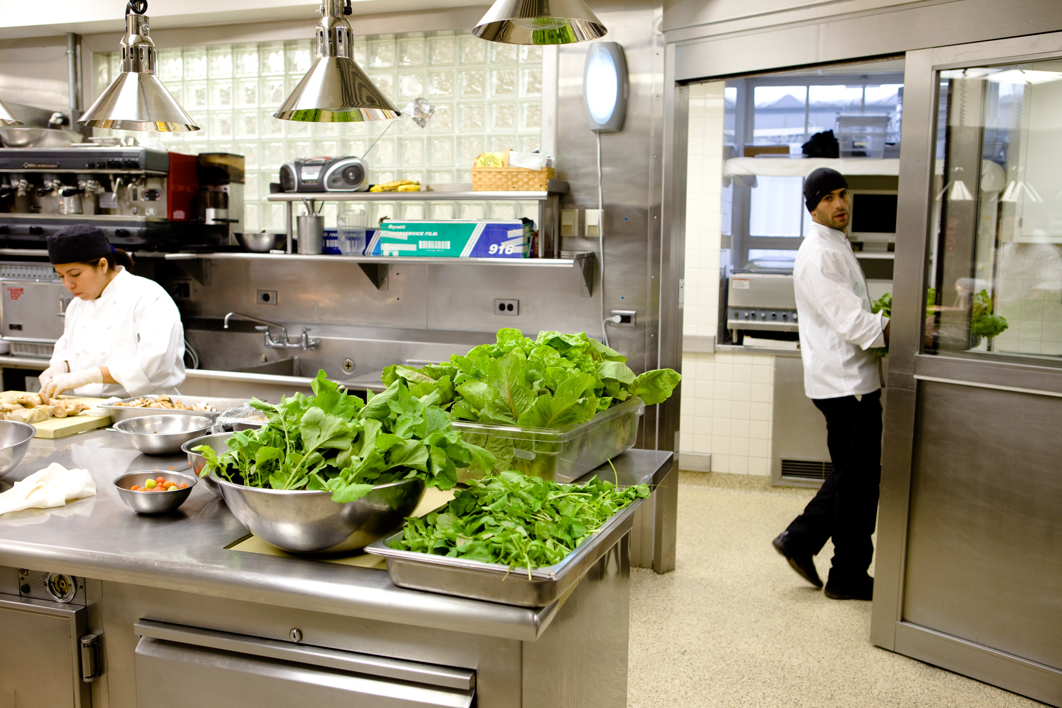 Radishes and lettuce harvested from the White House Garden are prepared for the Congressional Spouses Luncheon May 17, 2009.